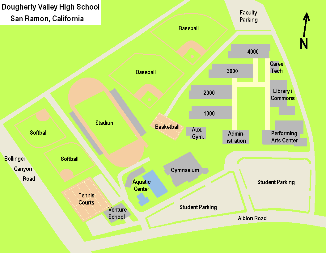 Map of Dougherty Valley High School in San Ramon California, USA